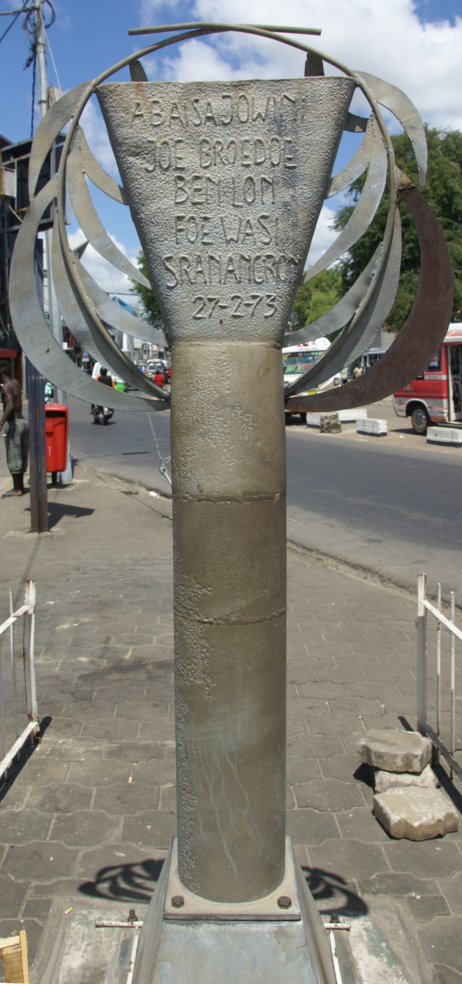 Monument for the killing of Ronald Abaisa (aka Jowini Abaisa), Dr. Sophie Redmondstraat. Paramaribo, Surinam. By Jack Pinas, 1974.